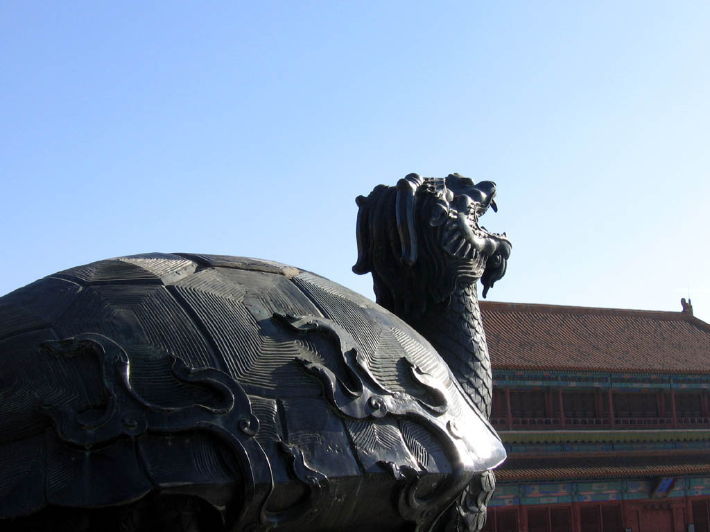 The Forbidden City or Forbidden Palace (Chinese: 紫禁城; pinyin: zǐ jìn chéng; literally "Purple Forbidden City"), located at the exact center of the ancient City of Beijing, was the imperial palace during the mid-Ming and the Qing dynasties.